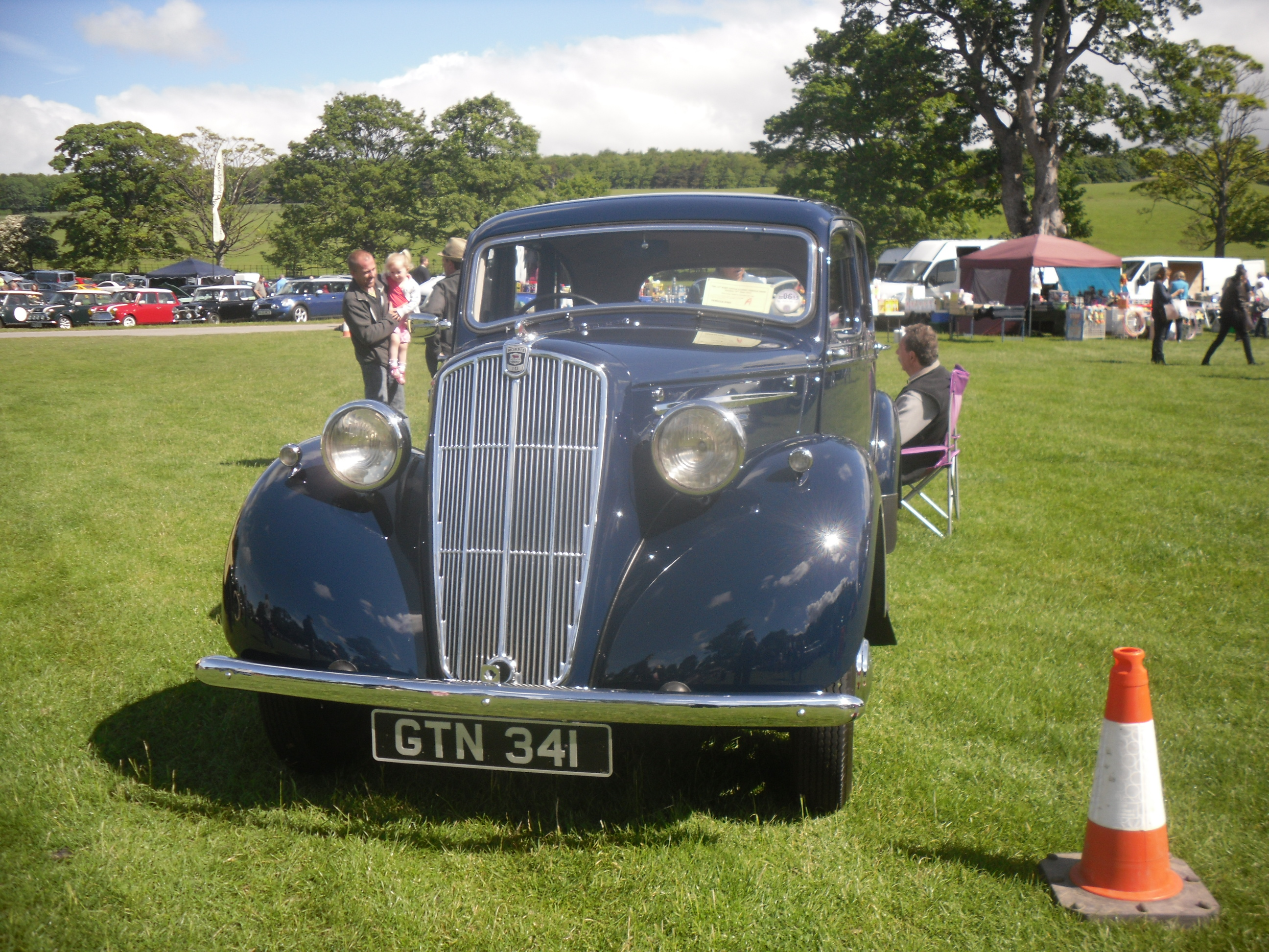 1938 MORRIS Ten series M GTN 341 (DVLA) first registered 1 October 1938, 1141cc Raby Castle 16 June 2013